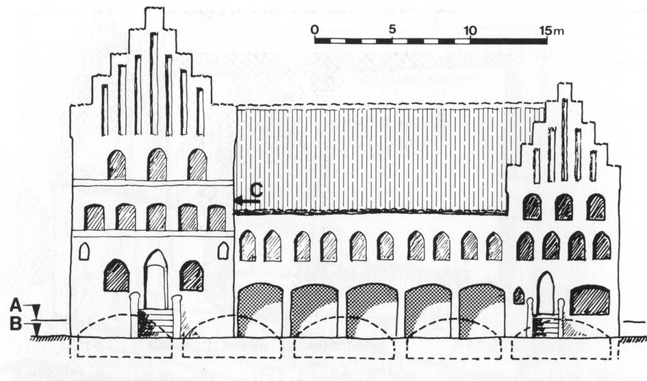 Reconstruktion of the medieval building of "Tunneln" in Malmö, Sweden.